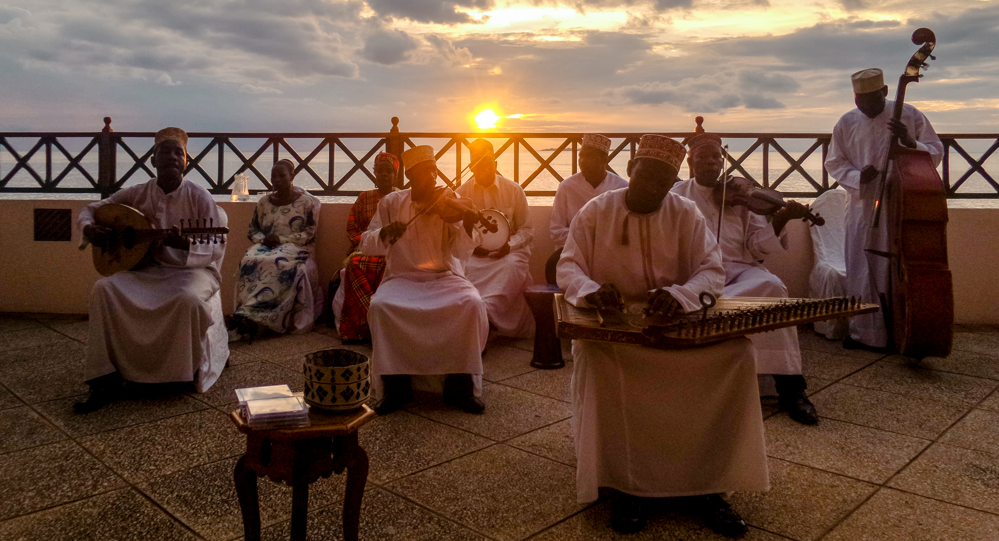 This is an image with the theme "Play" from: Tanzania